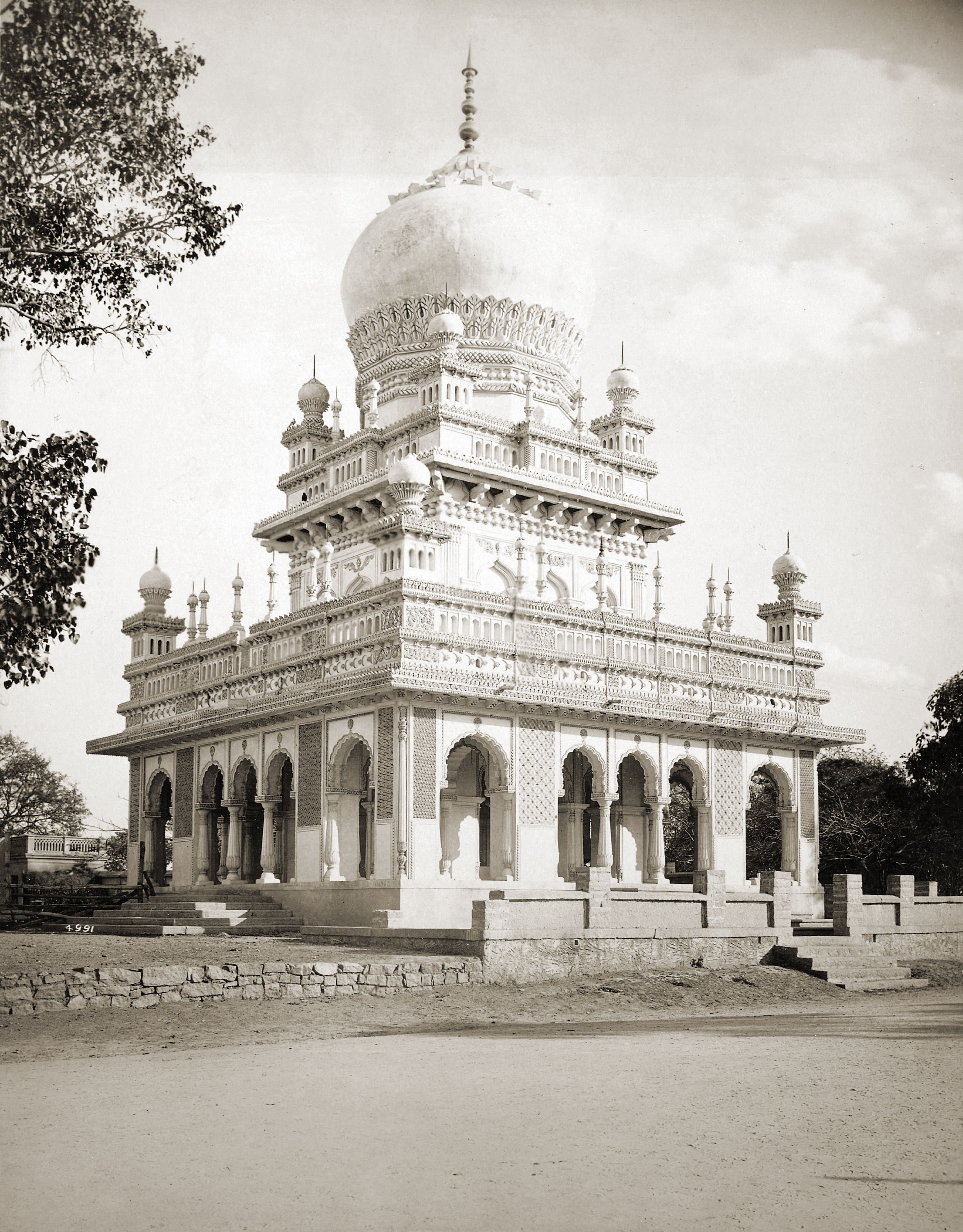 Saidani maa Dargah and Mosque Tomb at Twin city of hyderabad and Secunderabad, taken by Deen Dayal in the 1880s, from the Curzon Collection. The tomb in this view has an onion-shaped dome and finials at the corners of the building; features typical of Deccani style architecture.